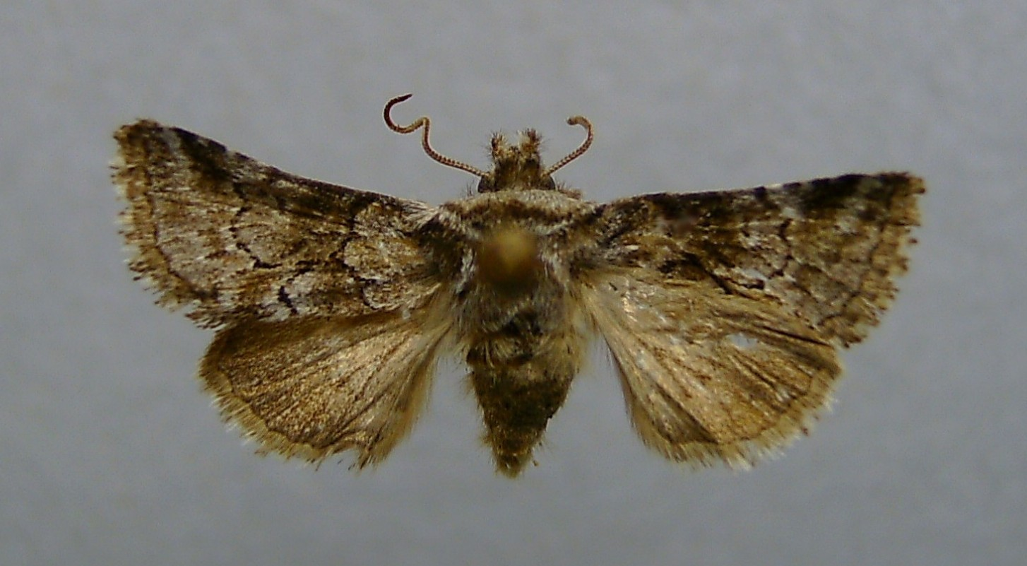 Cleonymia yvanii, La Seu d’Urgell Spain